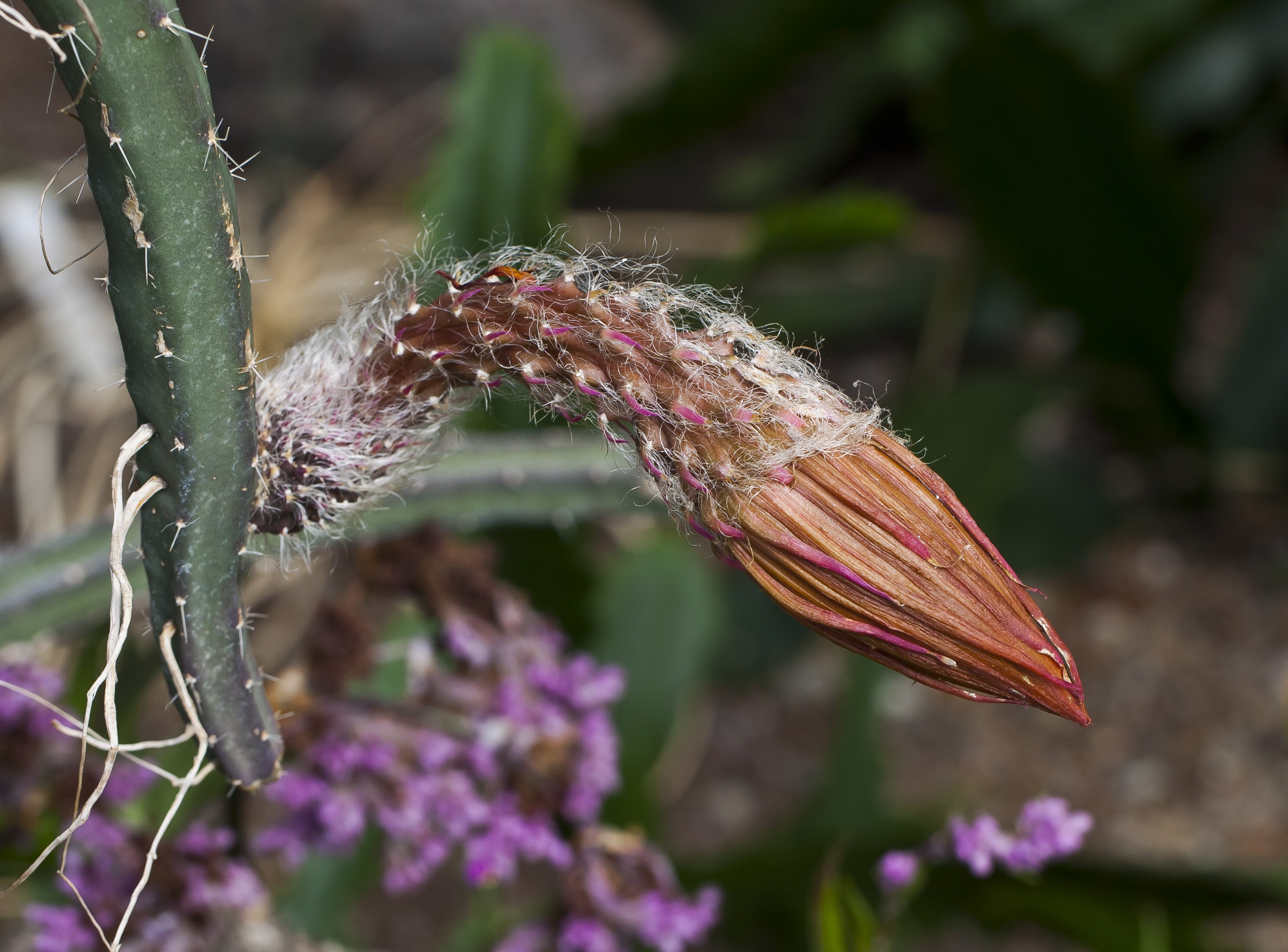 Coneflower Moonlight Cactus (Selenicereus coniflorus), Tallinn Botanic Garden, Estonia